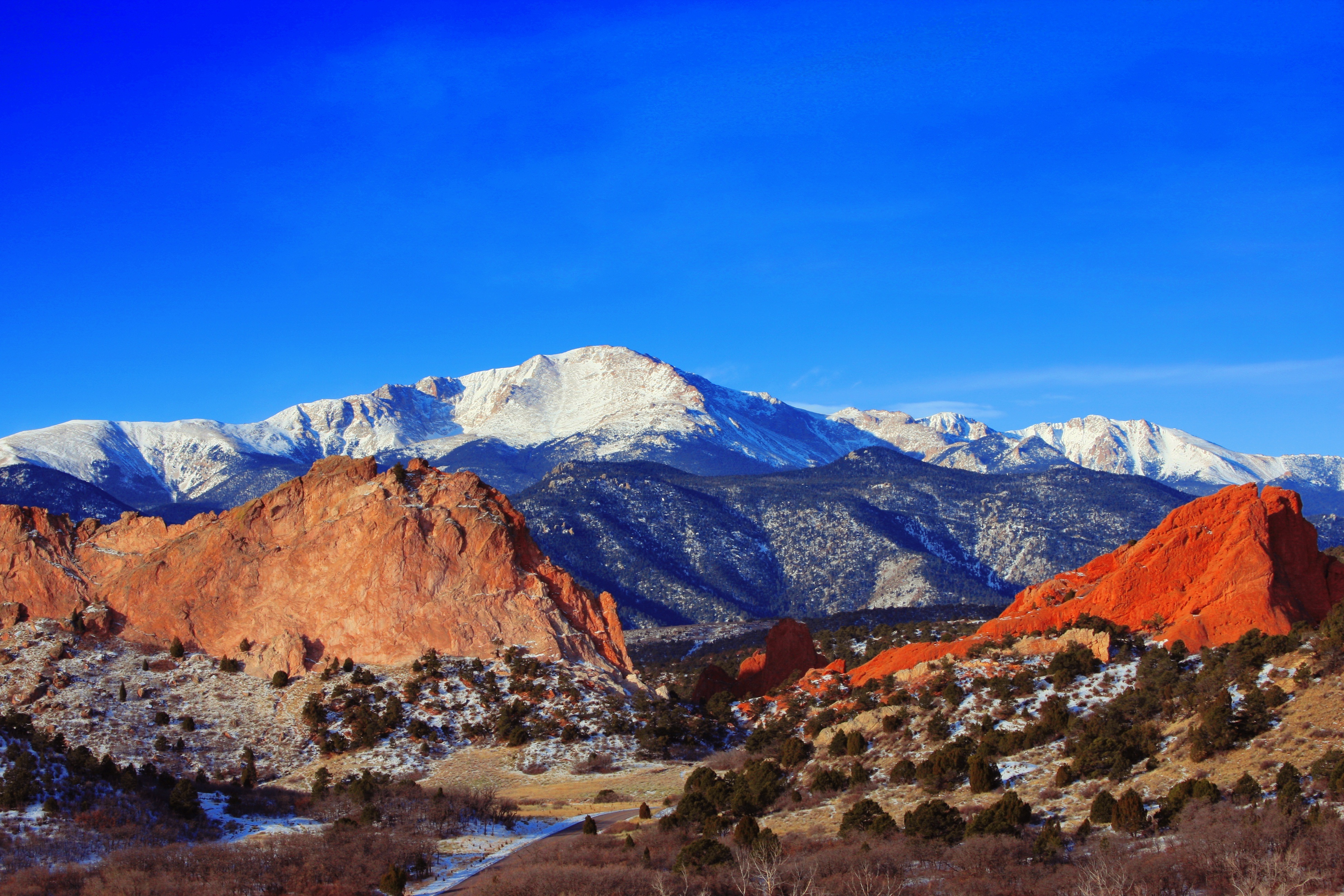 Pikes peak and Garden of the Gods